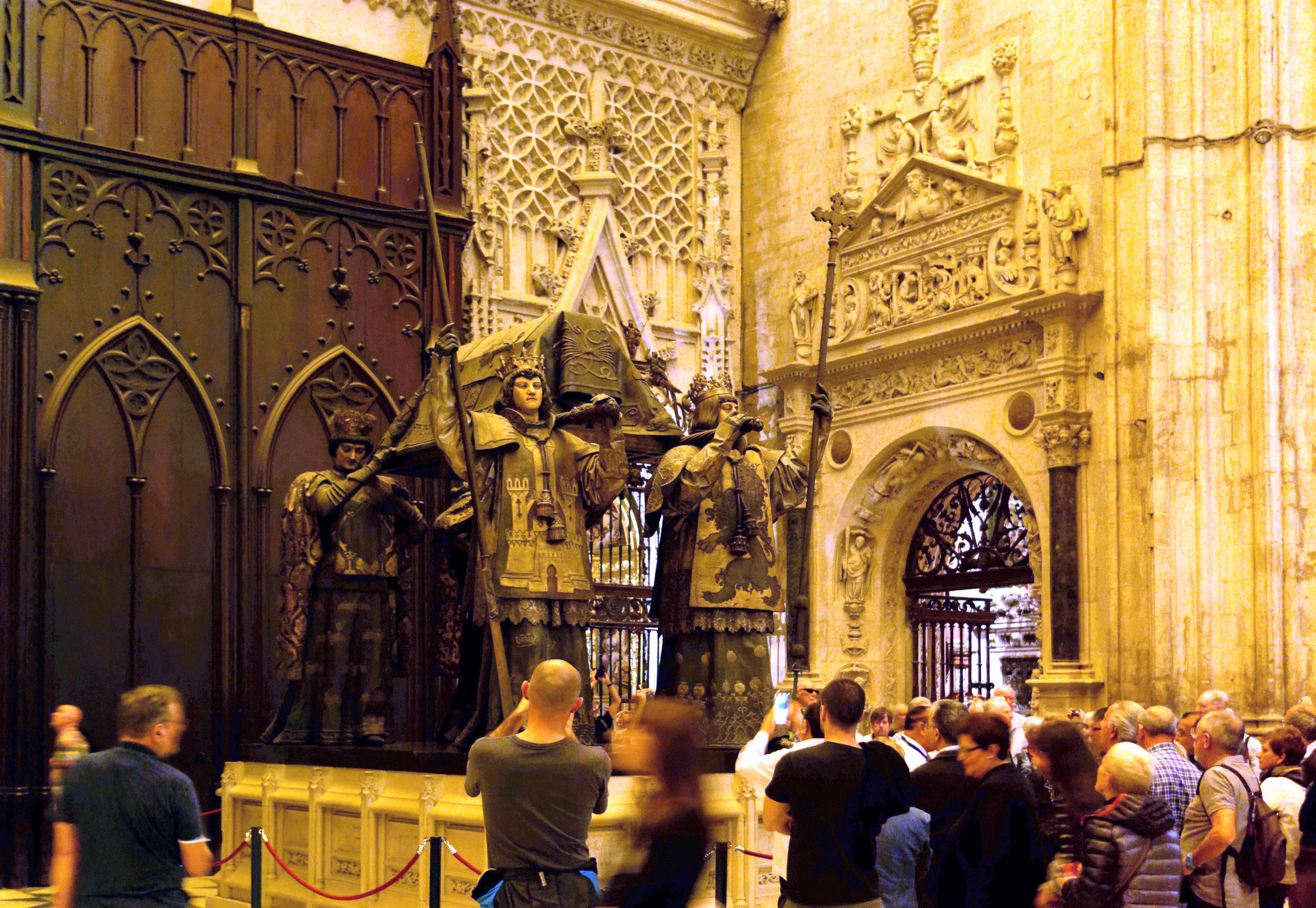 Spain, Sevilla, Cathedral of Seville, Tomb of Christopher Columbus